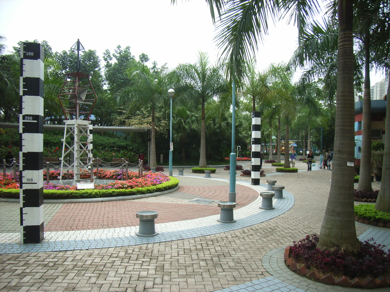 卑路乍灣公園 Belcher Bay Park, Kennedy Town, Hong Kong 位於香港島堅尼地城堅彌地城海旁。